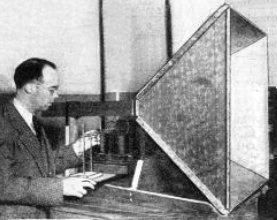 The first modern horn antenna and its inventor, Wilmer L. Barrow in 1938. A horn antenna is a flaring metal horn used to direct microwaves from a waveguide into a beam. Although Jagadish Chandra Bose invented the horn antenna during his pioneering 1897 experiments with microwaves, subsequent development of radio used much lower frequencies at which horns were unsuitable, and the concept of a horn to direct radio waves was forgotten. Around 1933 Barrow at Massachusetts Institute of Technology reinvented the horn antenna during research into microwave detection of aircraft, and published his work in 1938. Caption: "Metal horn recently devised and successfully used by Prof. Wilmer L. Barrow in focusing ultra-short waves; waves in the range 300 to 4300 megacycles (wavelengths from 1 meter to 7 centimeters)."